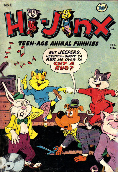 Cover of comic book "Hi-Jinx" July-August 1947